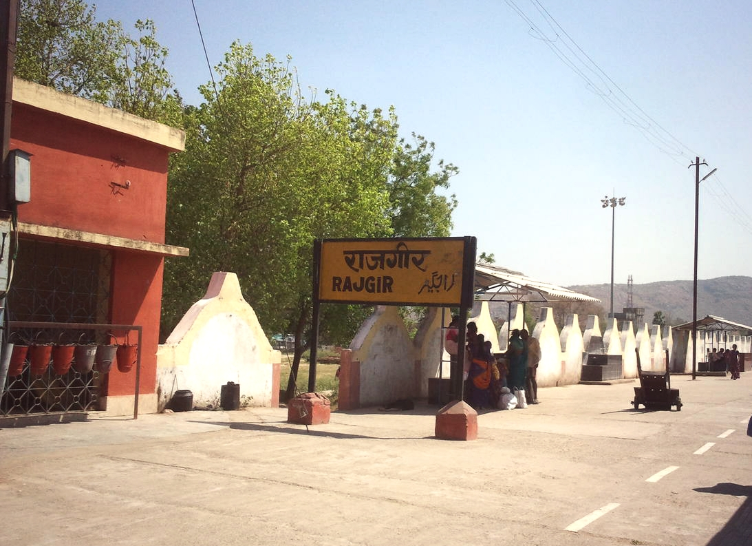 Railway of Rajgir terminal, Rajgir, Bihar, India